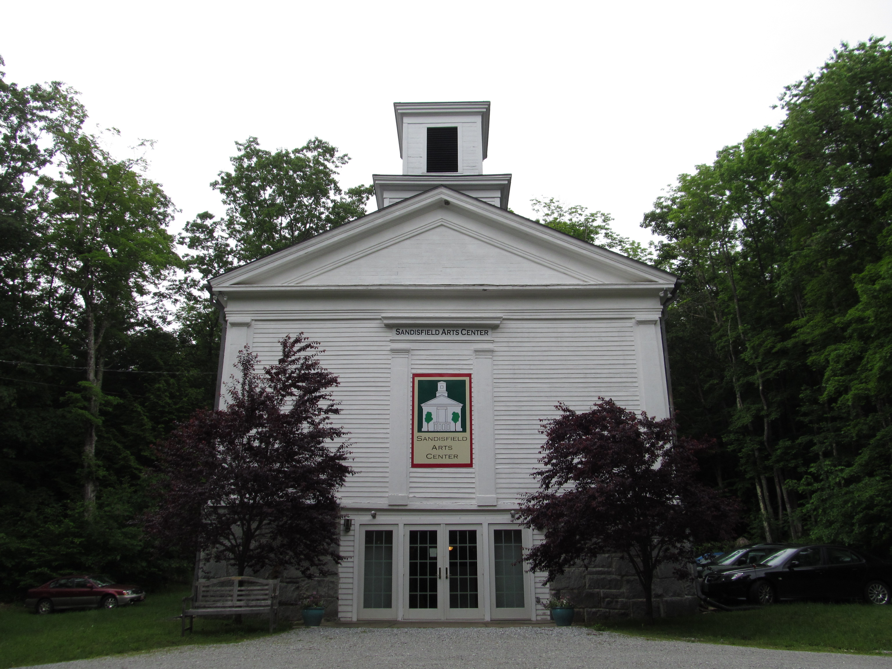 Sandisfield Arts Center, Montville Massachusetts